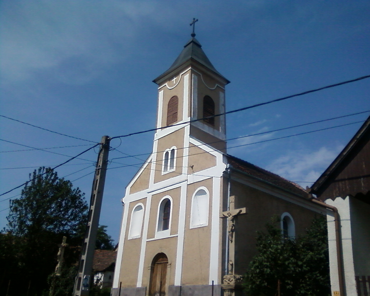 All Saint church in Nagypall, Hungary